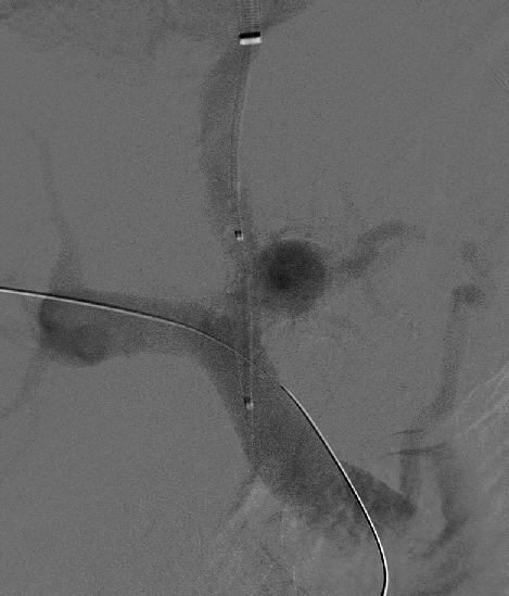 Fluoroscopic image of transjugular intrahepatic portosystemic shunt (TIPS) in progress. A catheter has been passed into the hepatic vein and after needle puncture, a guidewire was passed into a portal vein branch. The tract was dilated with a balloon, and contrast injected. A self-expandable metallic stent has yet to be placed over the wire. I ordered this investigation. A signed consent from the patient has been obtained.